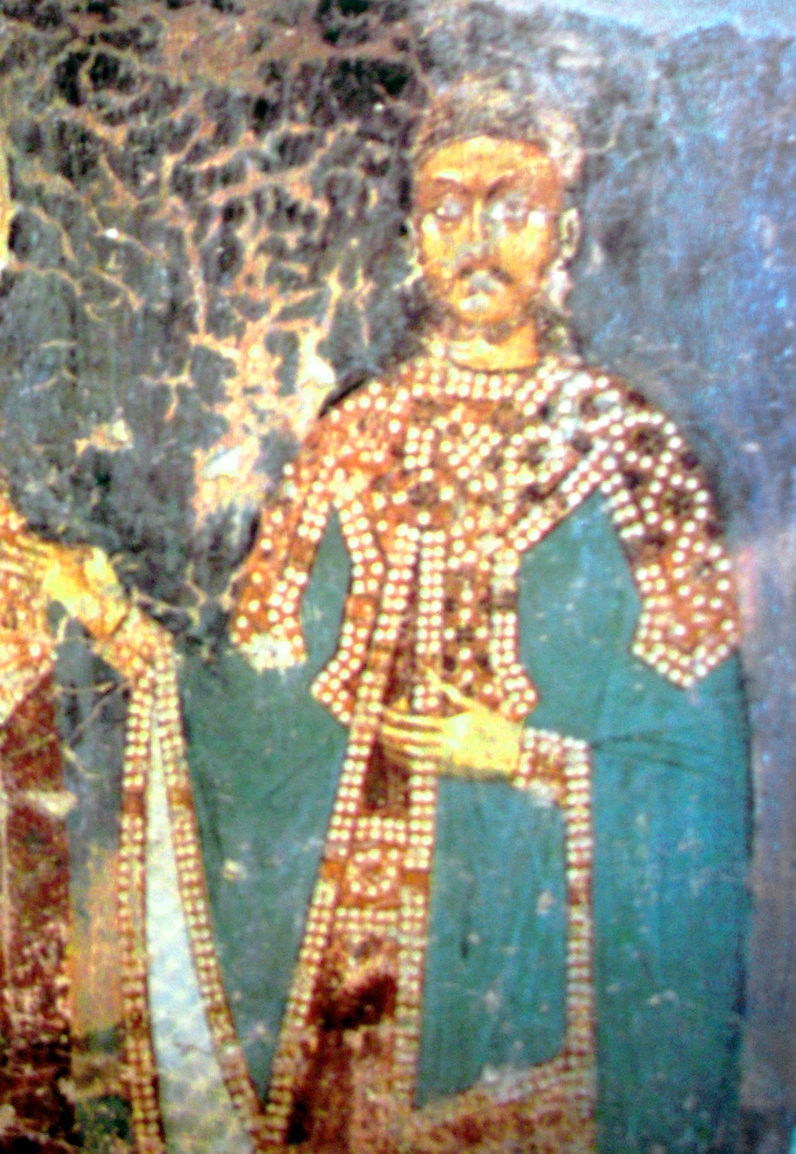 Fresco of Stefan and Vuk Lazarević in Rudenica, near Aleksandrovac, Serbia.